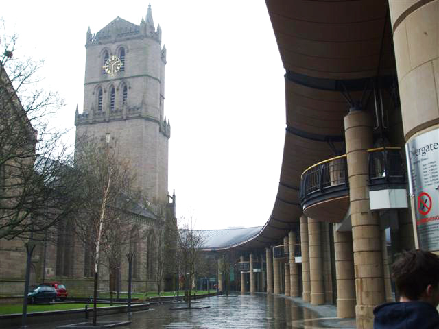 St Mary's Church of Scotland in Dundee city centre, with the Overgate Centre shopping mall surrounding it. Pictured under cover from the Overgate Centre as it was raining.